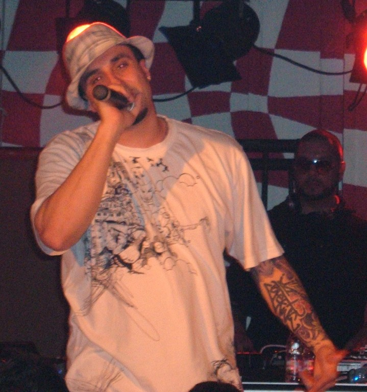 Tote King is a Spanish Rapper.